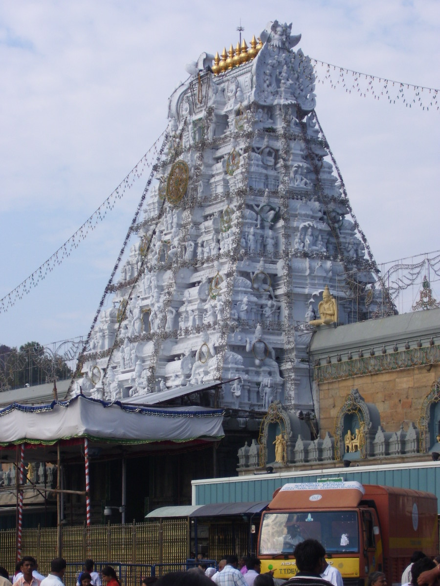 Side View of the Tirumala Venkateswara Temple.